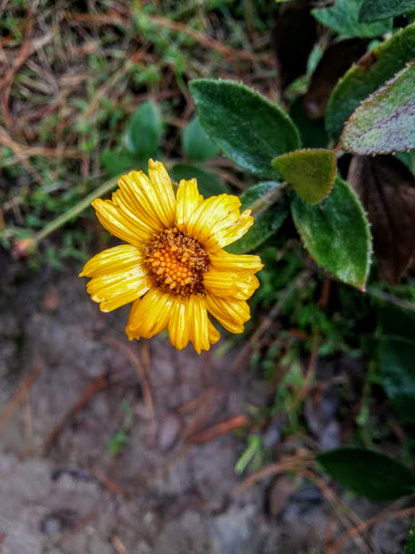 Flower of Calea peruviana